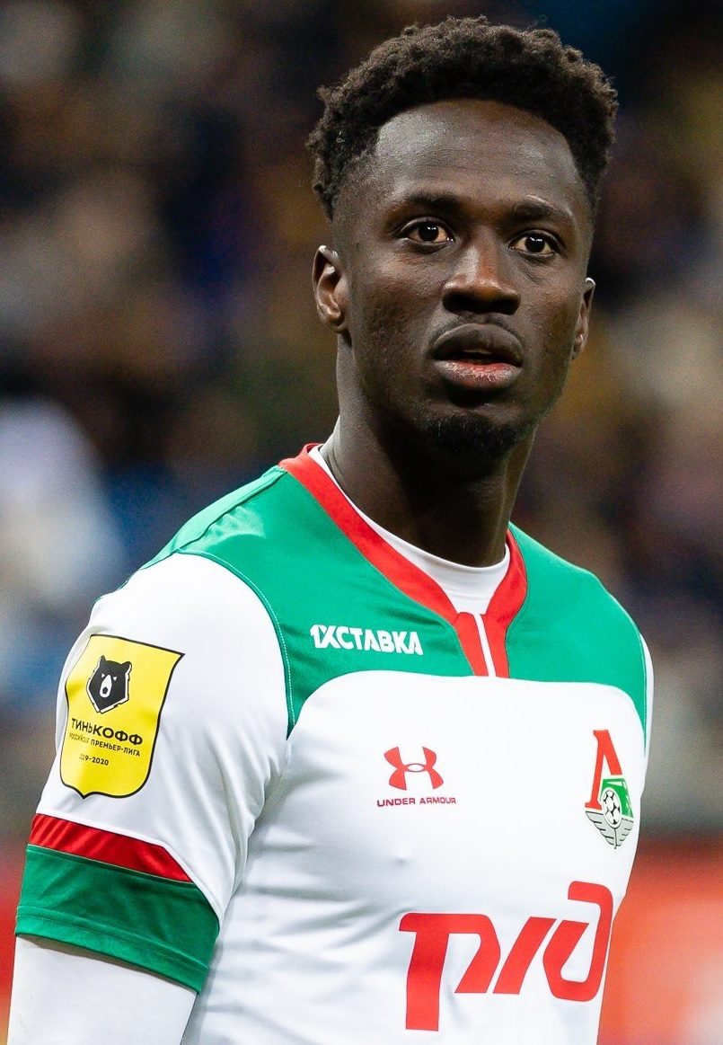 Eder with FC Lokomotiv Moscow in a game against FC Rostov.